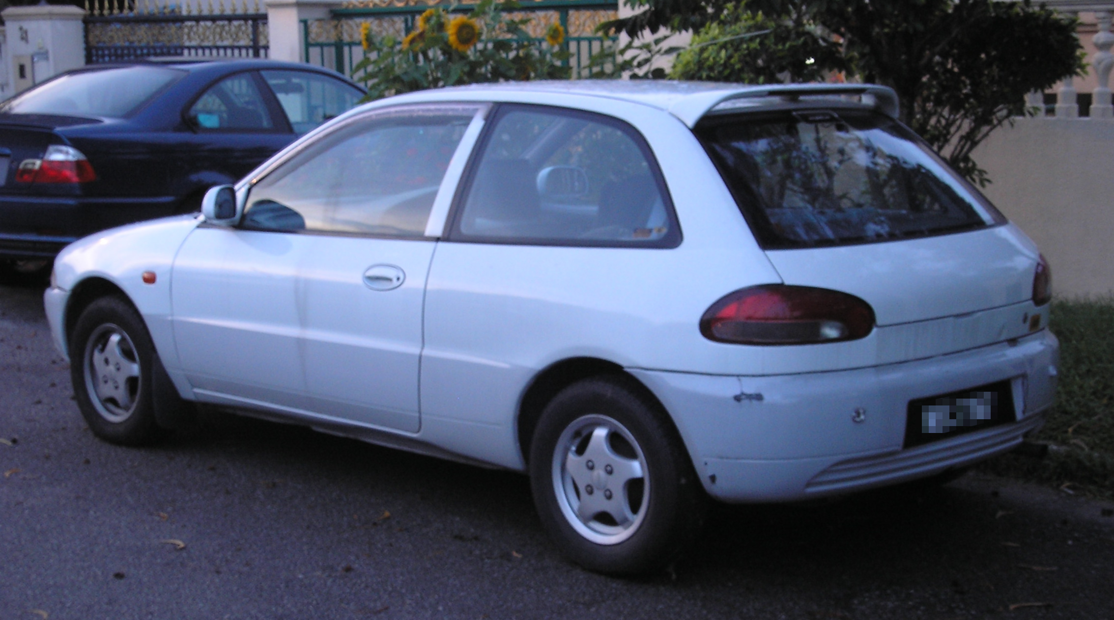 The rear of a first generation Proton Satria, in Bangsar, Malaysia.